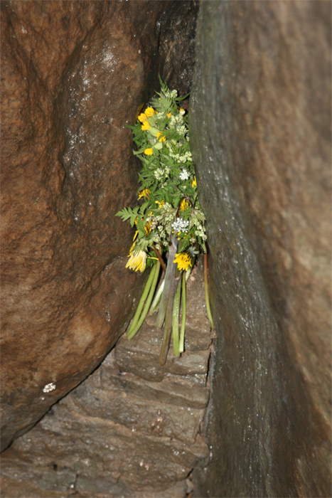 A Pagan offering at West Kennet Long Barrow, Avebury (Beltane 2005)